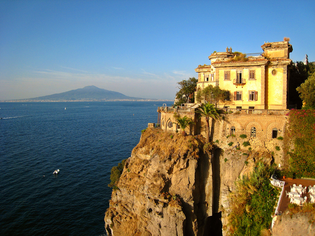 View from Sant'Agnello, Province of Naples, Italy.